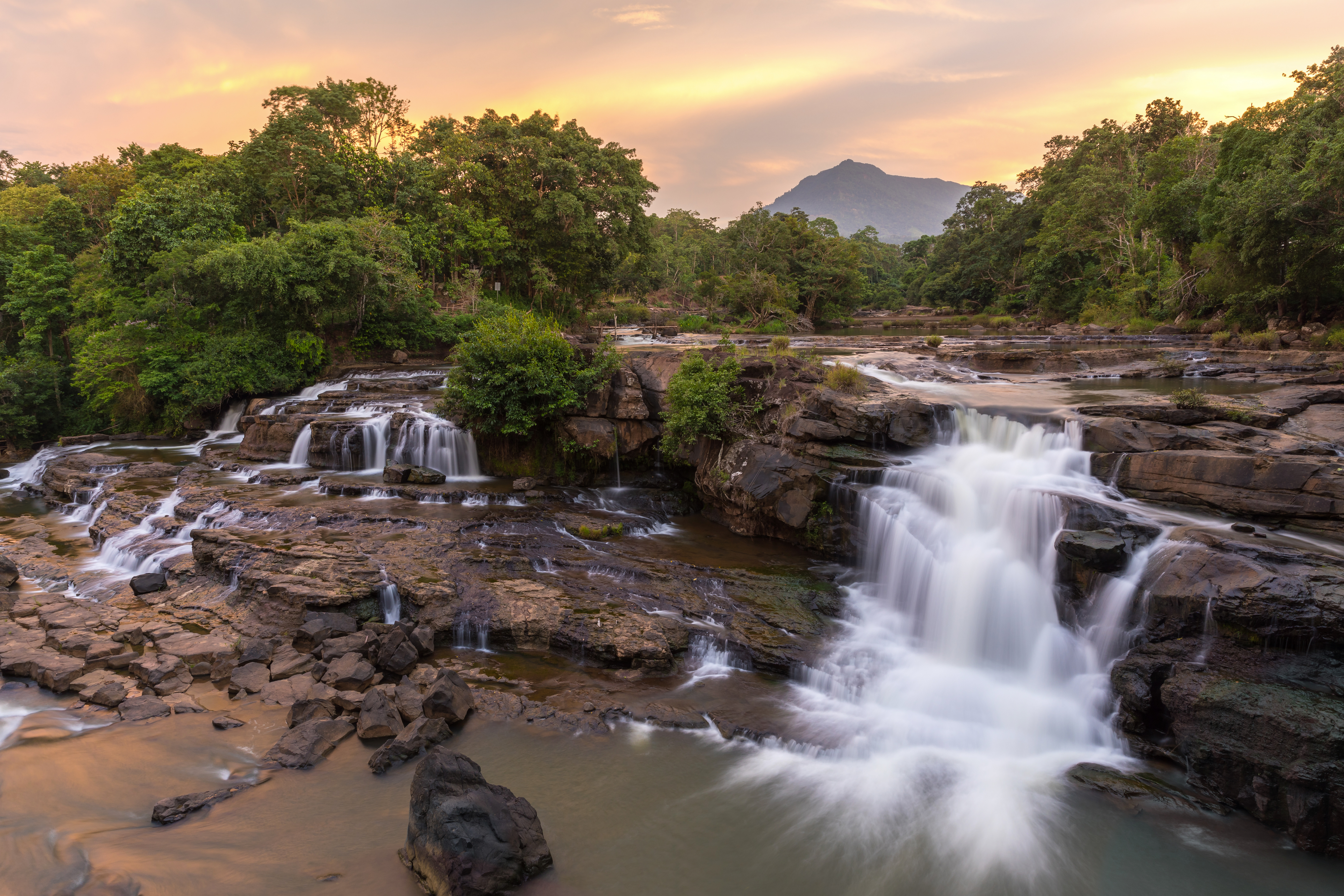 Tad Hang waterfalls at sunset, Tad Lo village, Bolaven Plateau, Salavan Province, Laos.